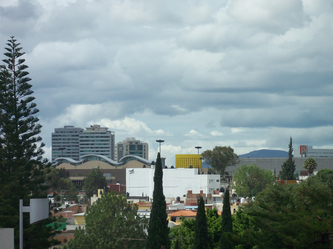 Puebla, Mexico